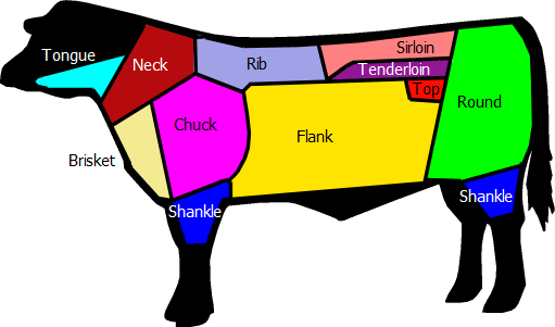 Chart with the traditional Dutch cuts of beef